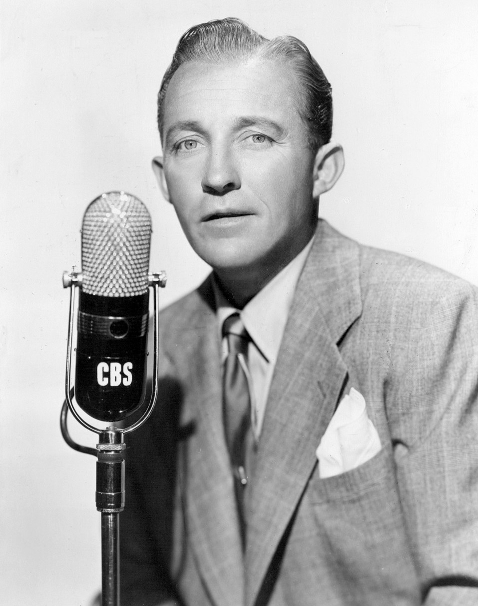 Photo of Bing Crosby.